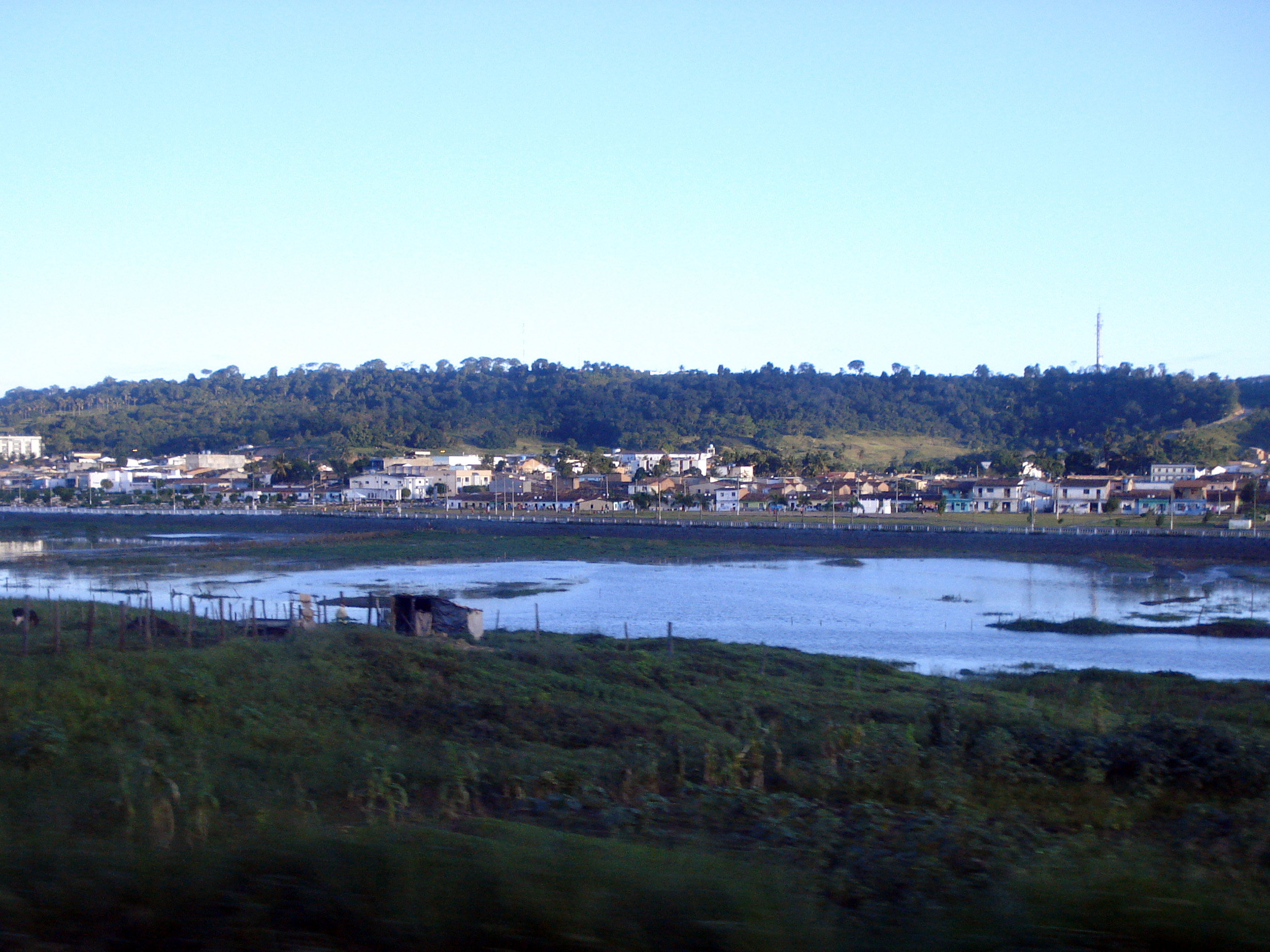 Village of São Miguel dos Campos, Alagoas, Brazil